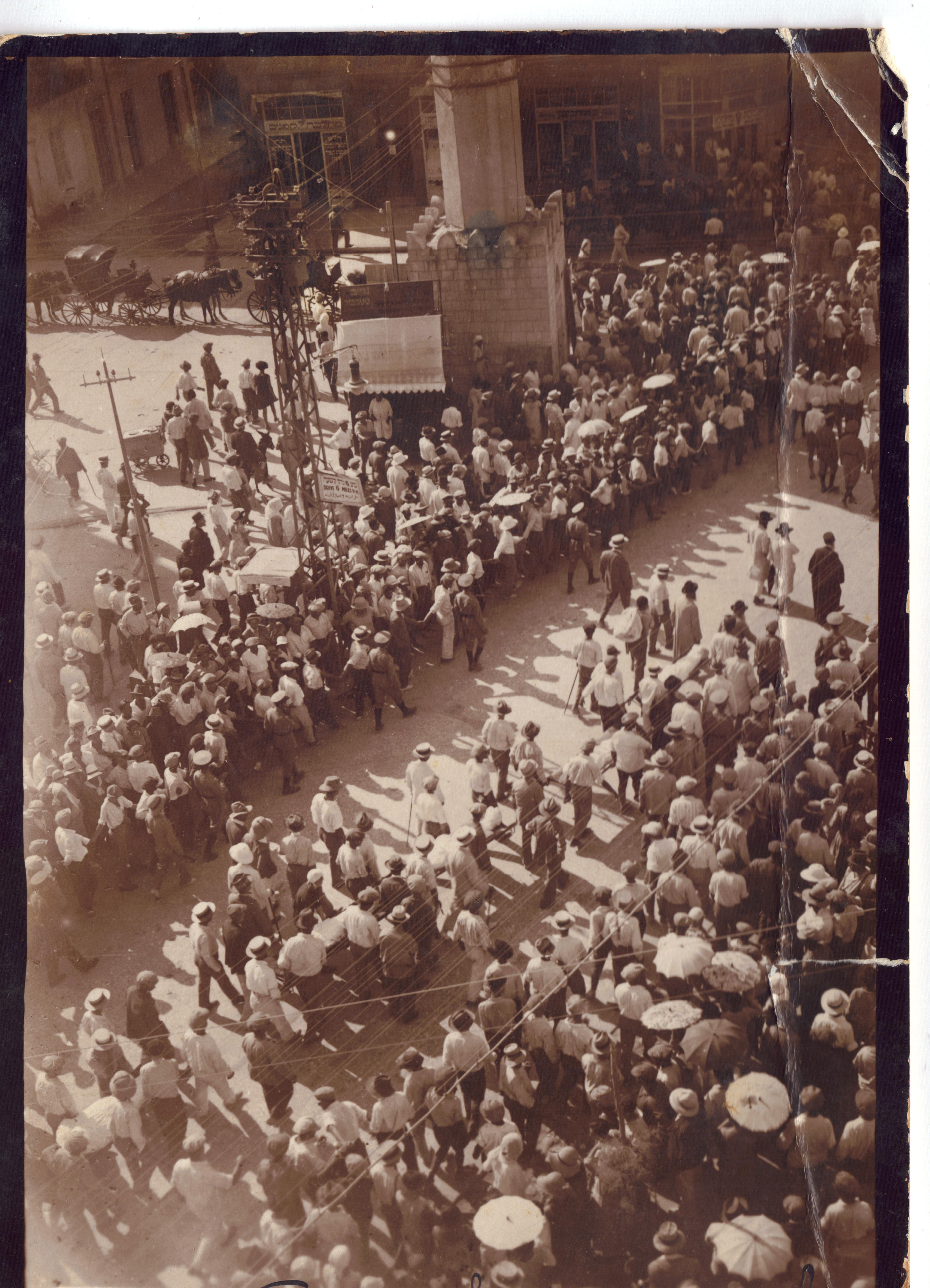 Geography of Israel